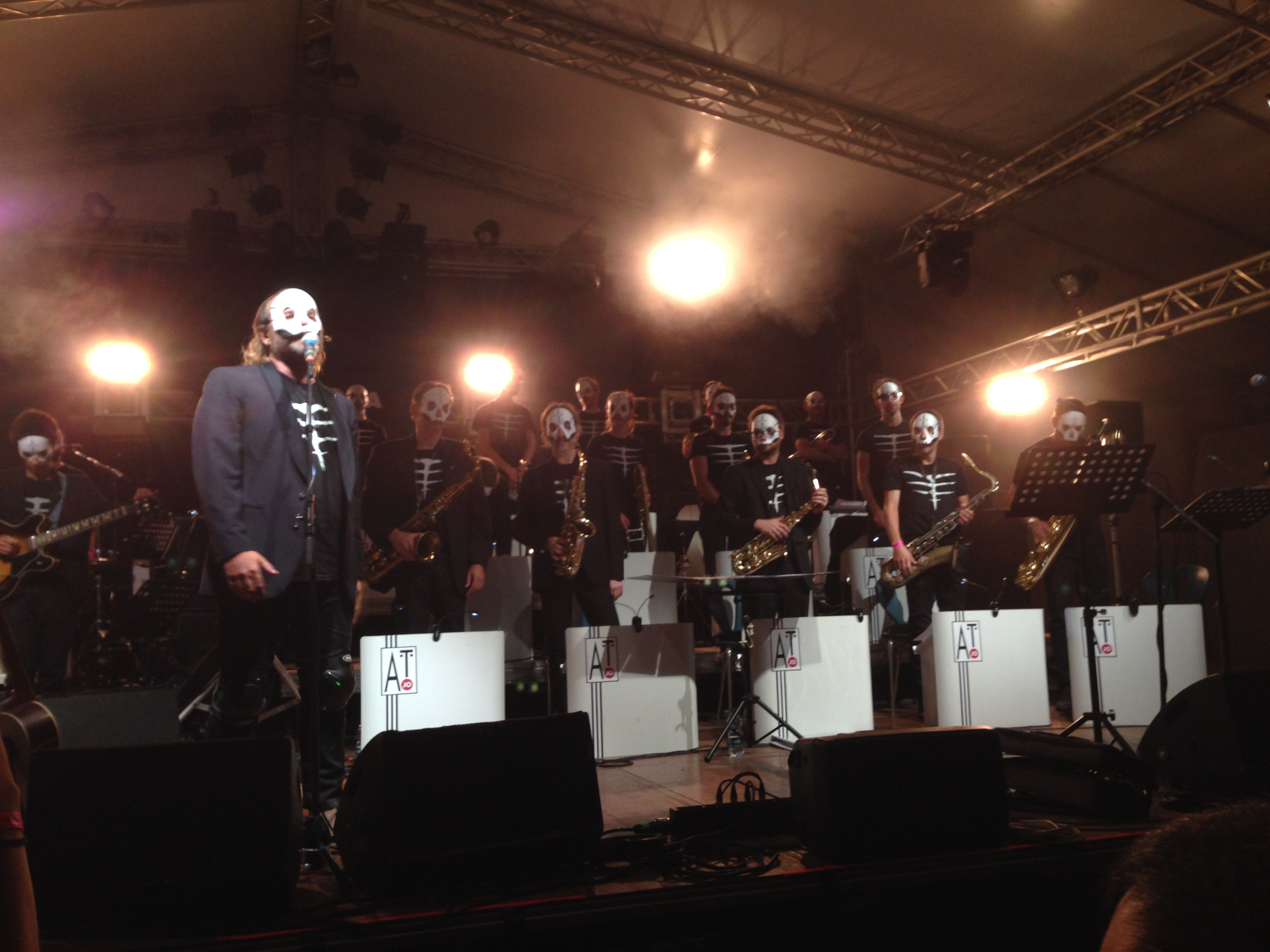 Tre allegri ragazzi morti with the Abbey Town Jazz Orchestra in the 2015 tour Quando eravamo swing (When we were swing)